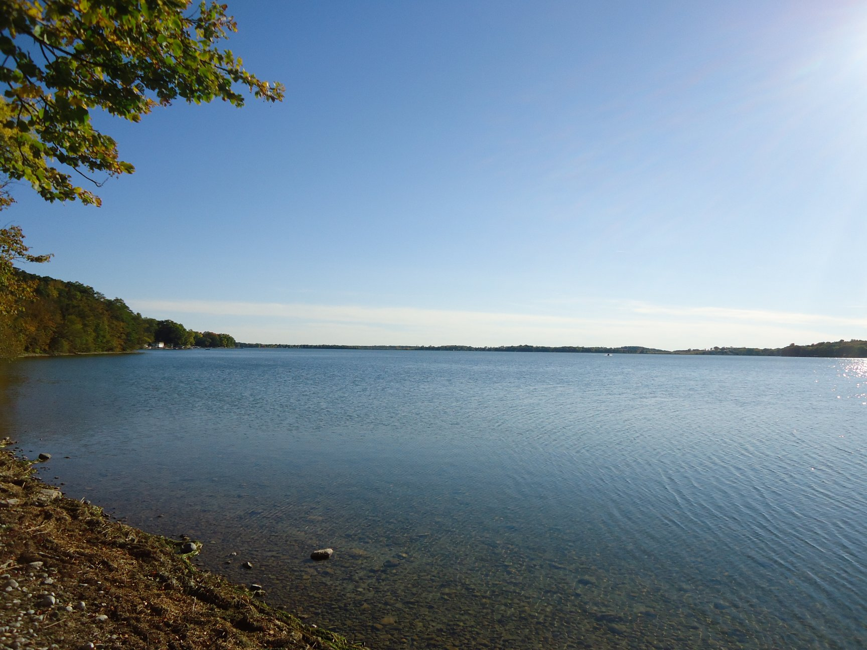 Rock Lake in Southern Wisconsin